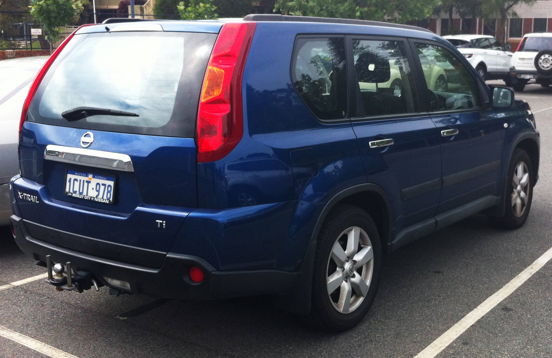 2007-2009 Nissan X-Trail (T31) Ti. Photographed in Claremont, Western Australia, Australia